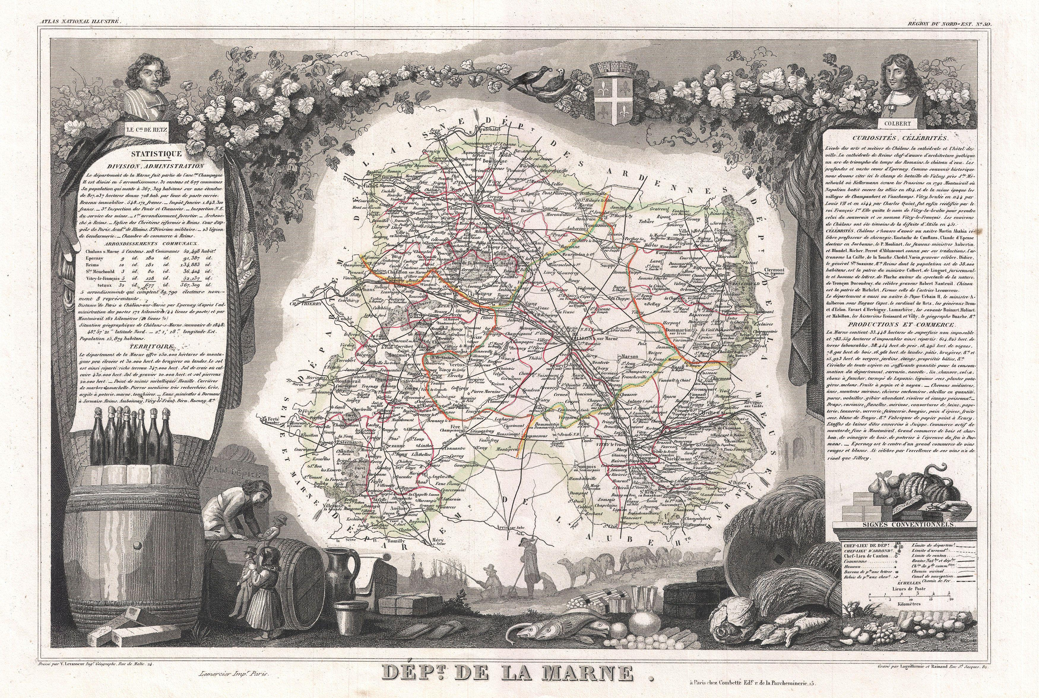 This is a fascinating 1852 map of the French department of Marne, France. This department is home to the Champagne region where the world's finest sparkling wine is produced. The map proper is surrounded by elaborate decorative engravings designed to illustrate both the natural beauty and trade richness of the land. There is a short textual history of the regions depicted on both the left and right sides of the map. Published by V. Levasseur in the 1852 edition of his Atlas National de la France Illustree.